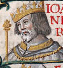 Miniature of John I of Portugal